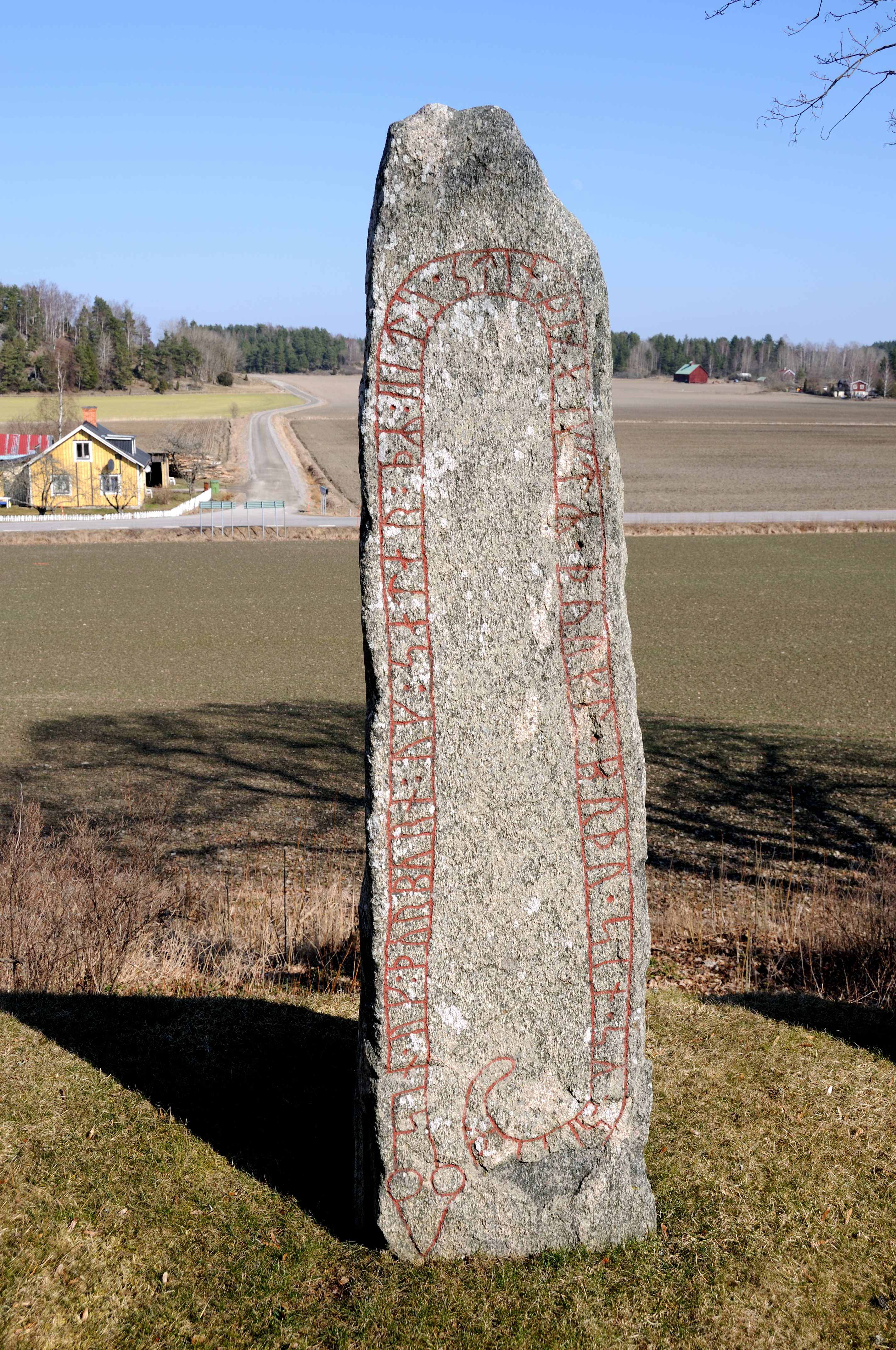 Runestone Ög 32 in Å, Östergötland.